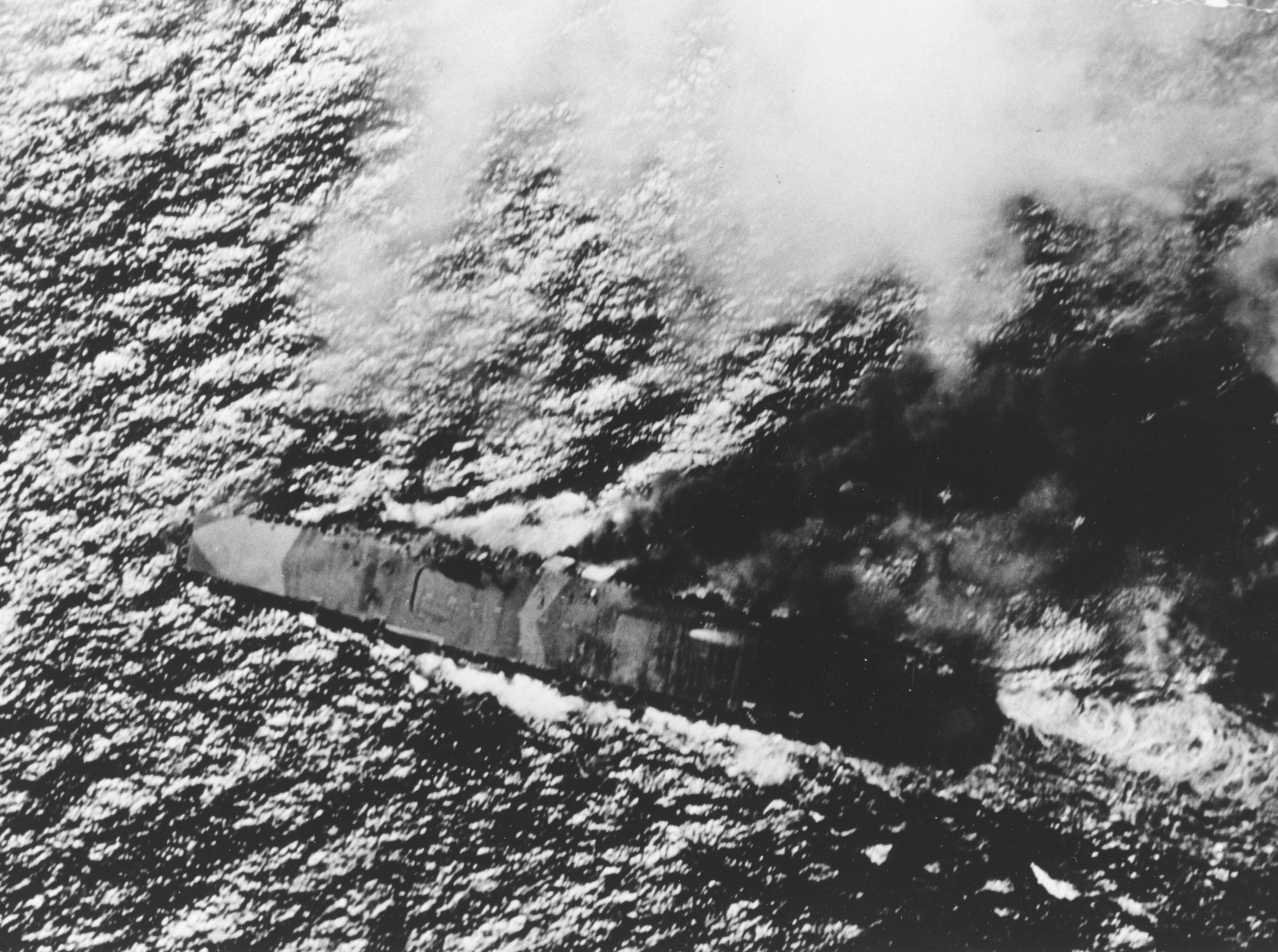 A Japanese aircraft carrier Zuikaku under attack during the Battle off Cape Engaño, 25 October 1944.